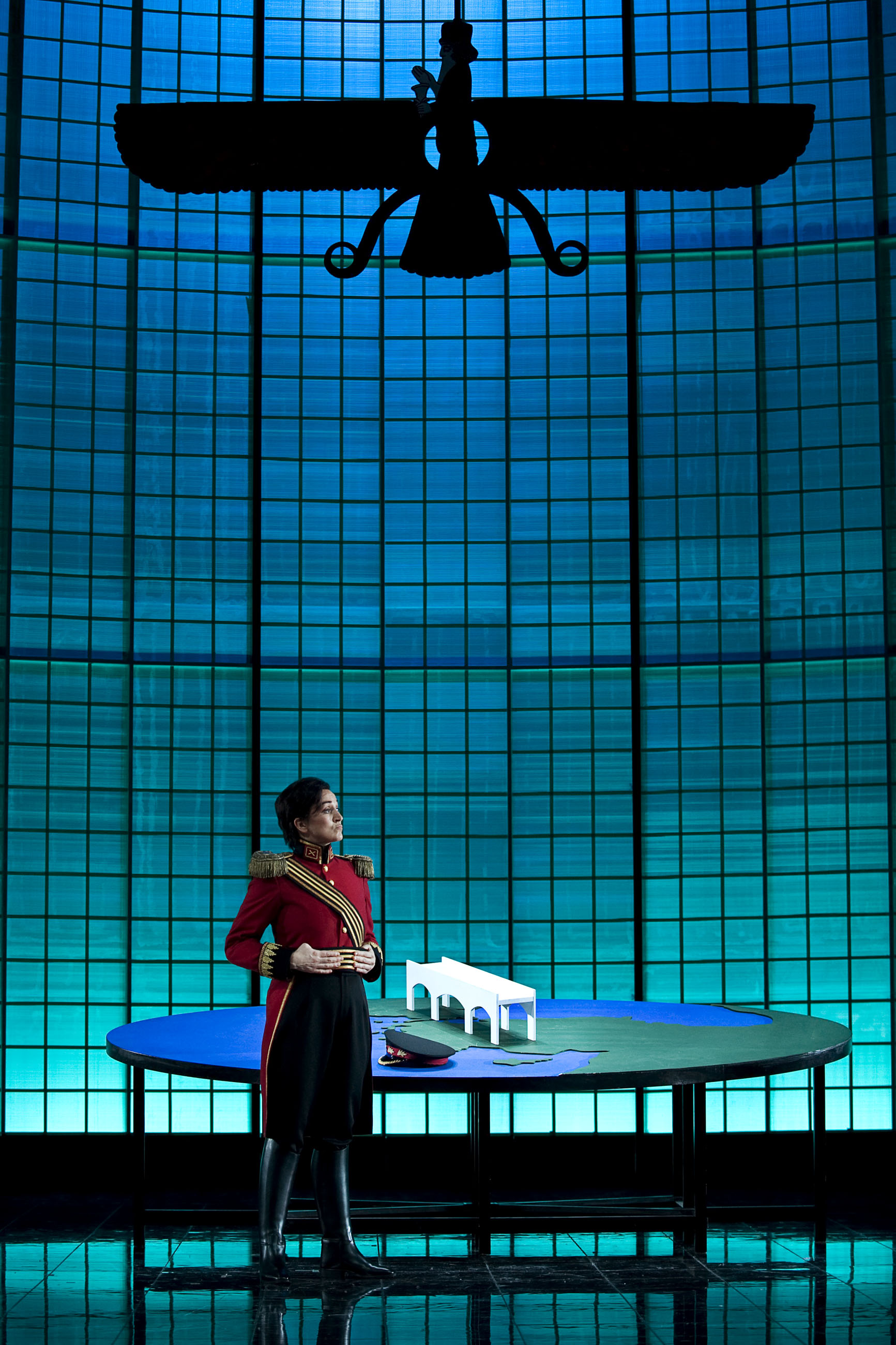 Katarina Karnéus as Xerxes in a 2009 production of Serse by George Frideric Handel at the Royal Swedish Opera